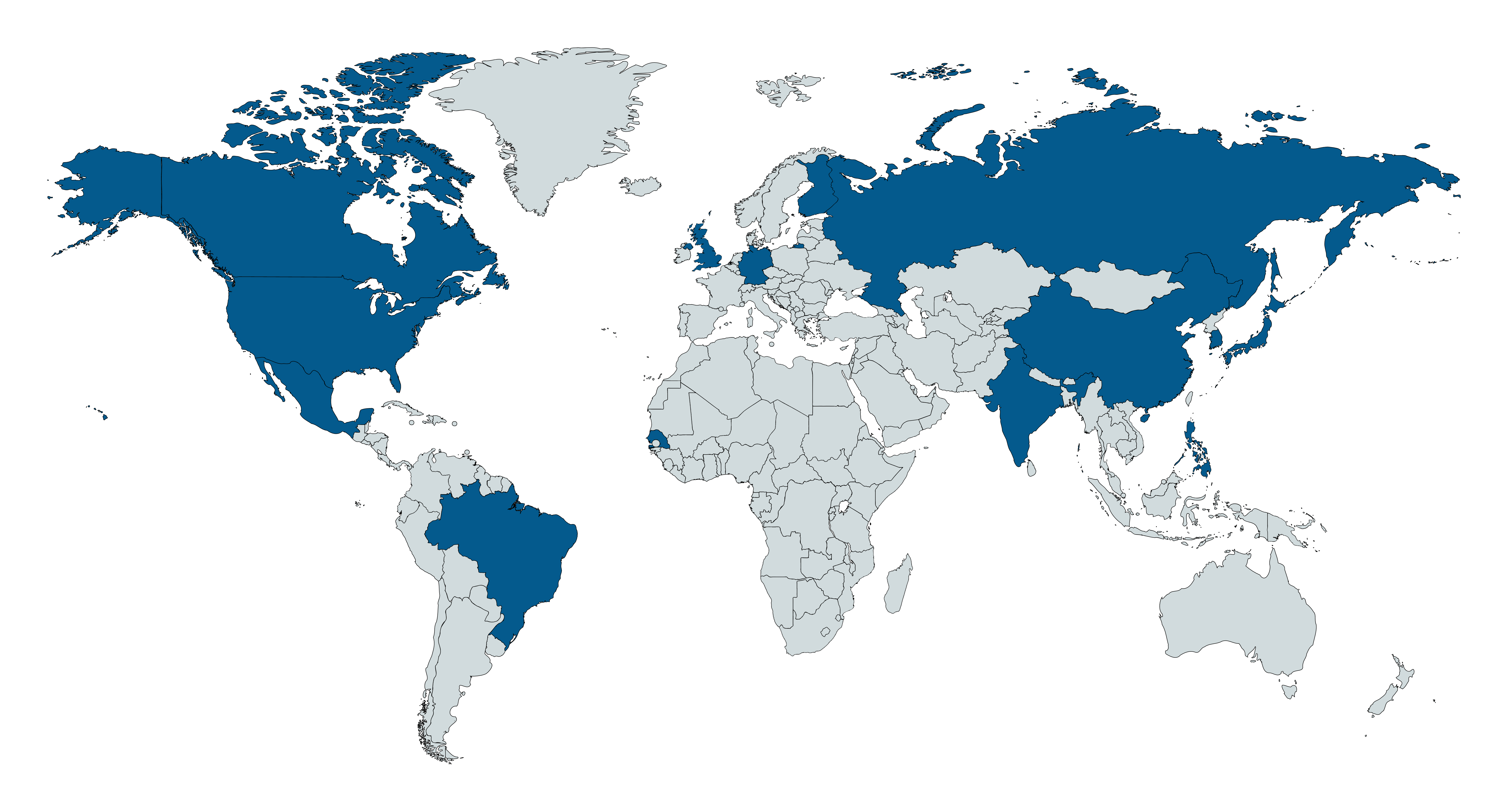 Birth counties of Now United members